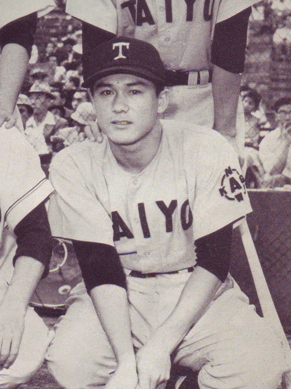 Kiyoshi Doi (Taiyo Whales. taken in 1956).